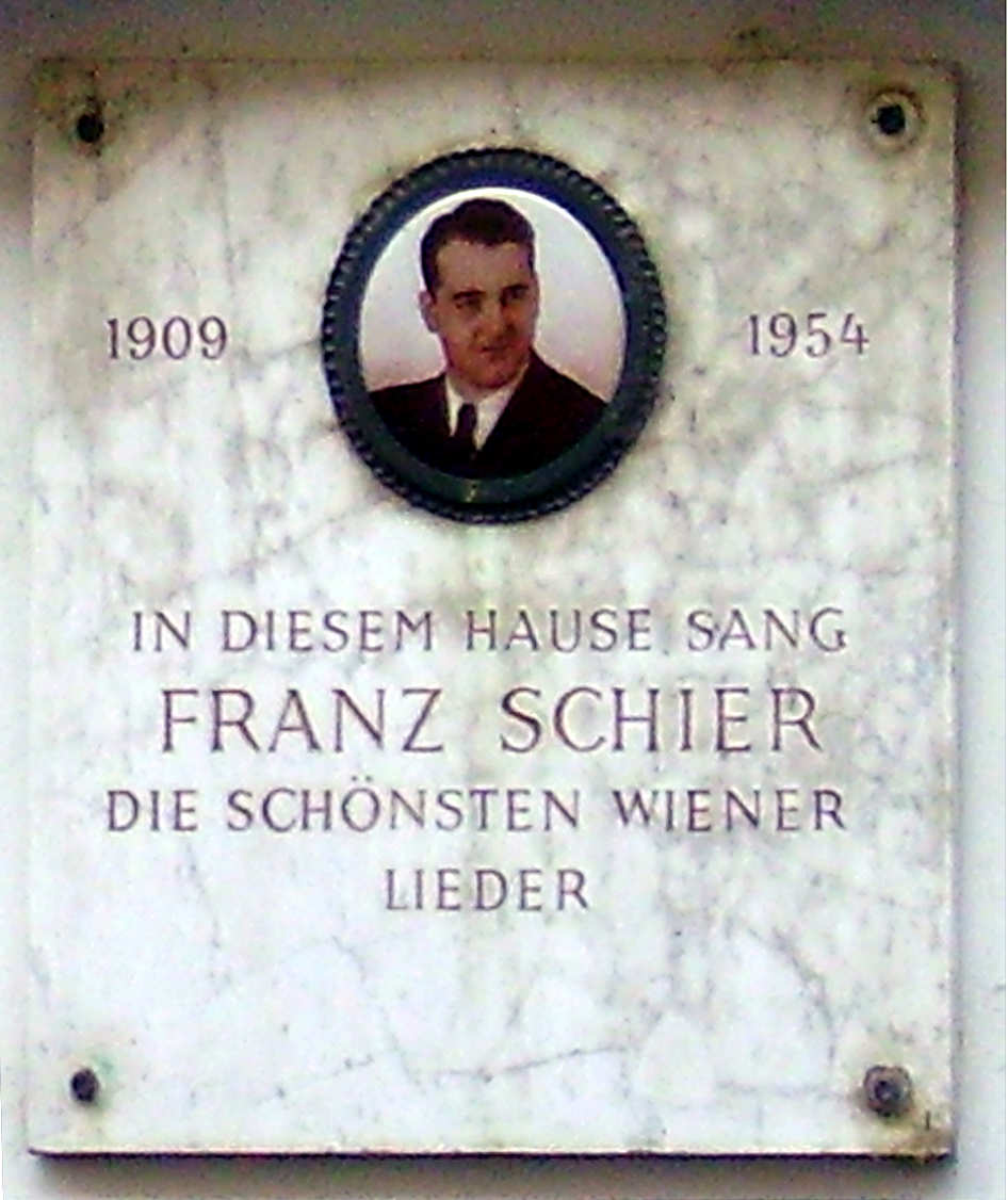 Franz Schier, memorial plaque at his house, Vienna, Hackhofergasse 12